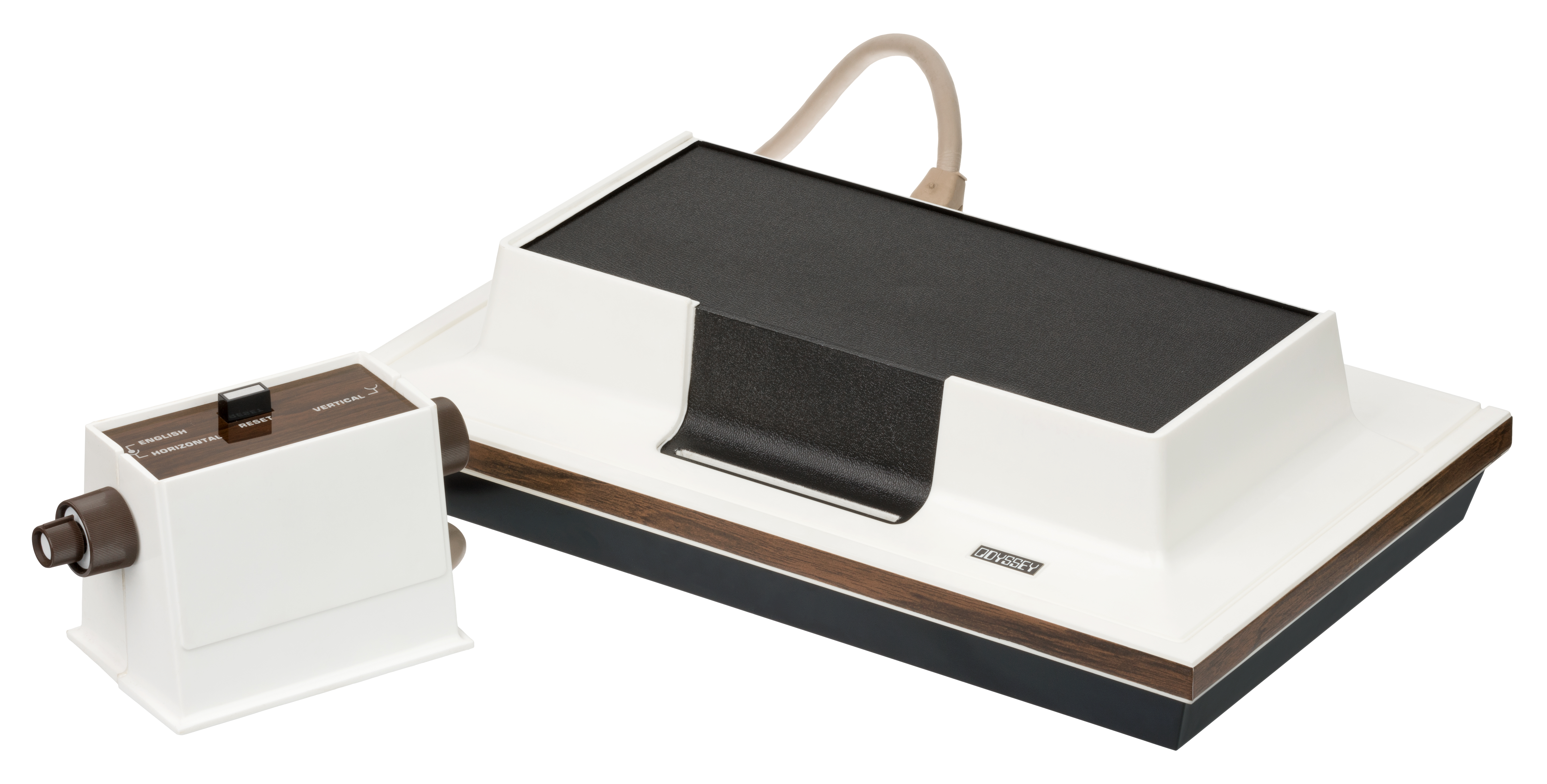 The Magnavox Odyssey, the very first video game console. Released in 1972, the Odyssey was a simple and crude device that generated shapes on the television that could be controlled and interacted with. It only produced black and white graphics and had no sound, but was limited to only using discrete components like diodes and transistors. It was replaced in 1975 with the Magnavox Odyssey series, a line of dedicated Pong consoles.